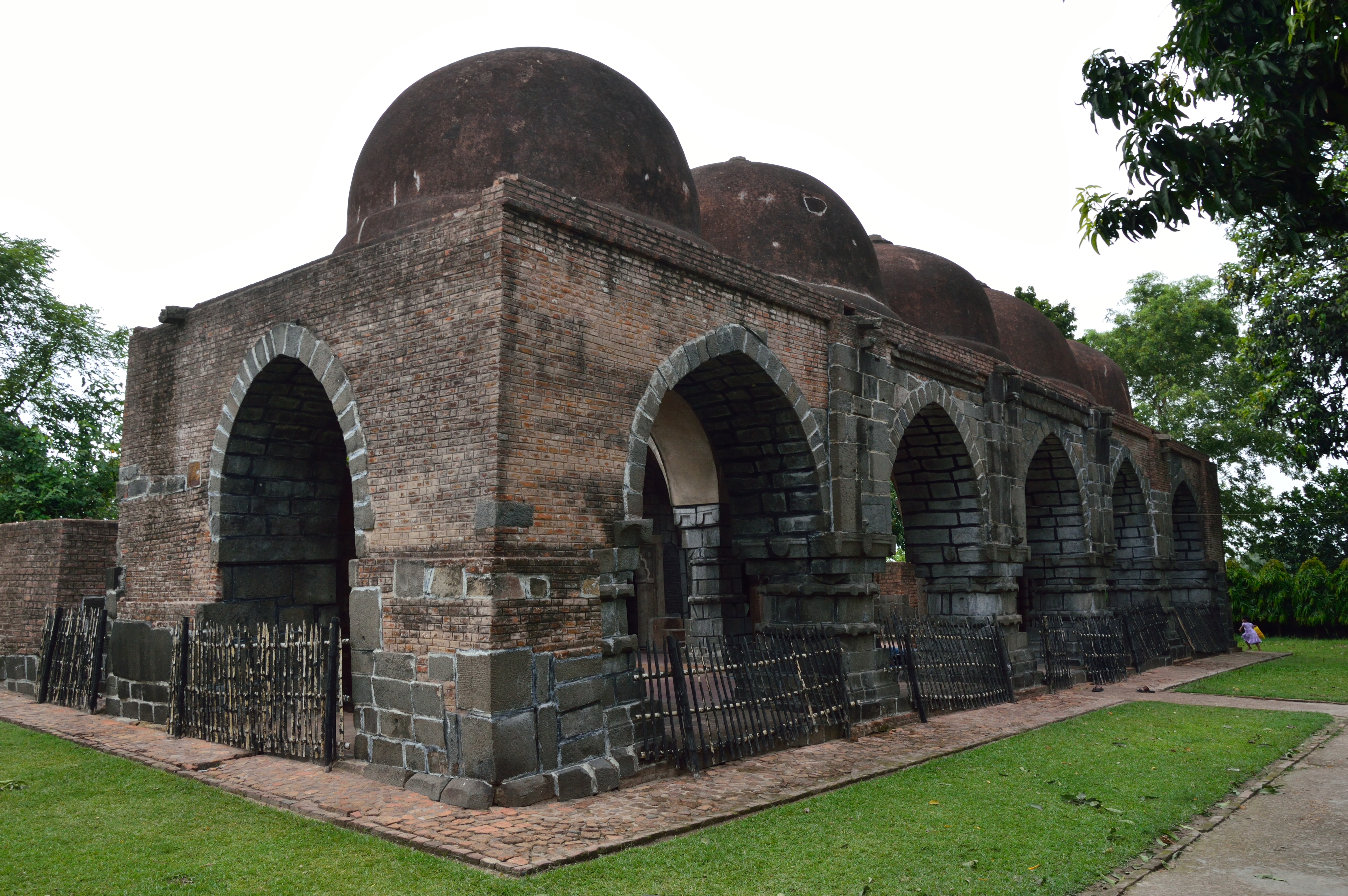 Shrine and Mosque known as Dargah of Zafar Khan Gazi, Tribeni, West Bengal, India.